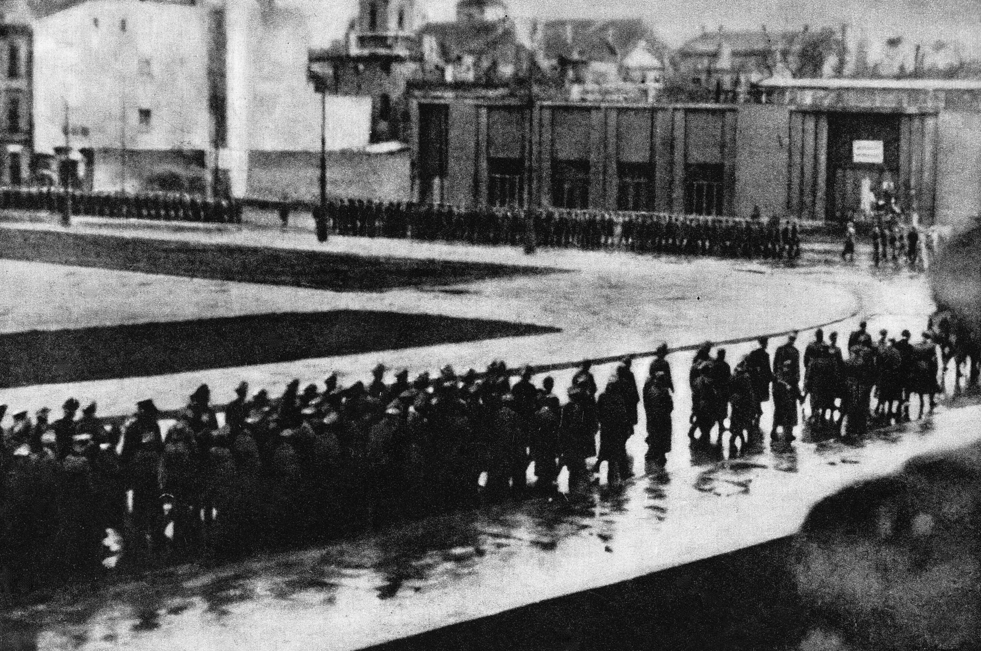 Franz Kutschera's funeral procession in Adolf-Hitler-Platz (Piłsudskiego Square) in Warsaw